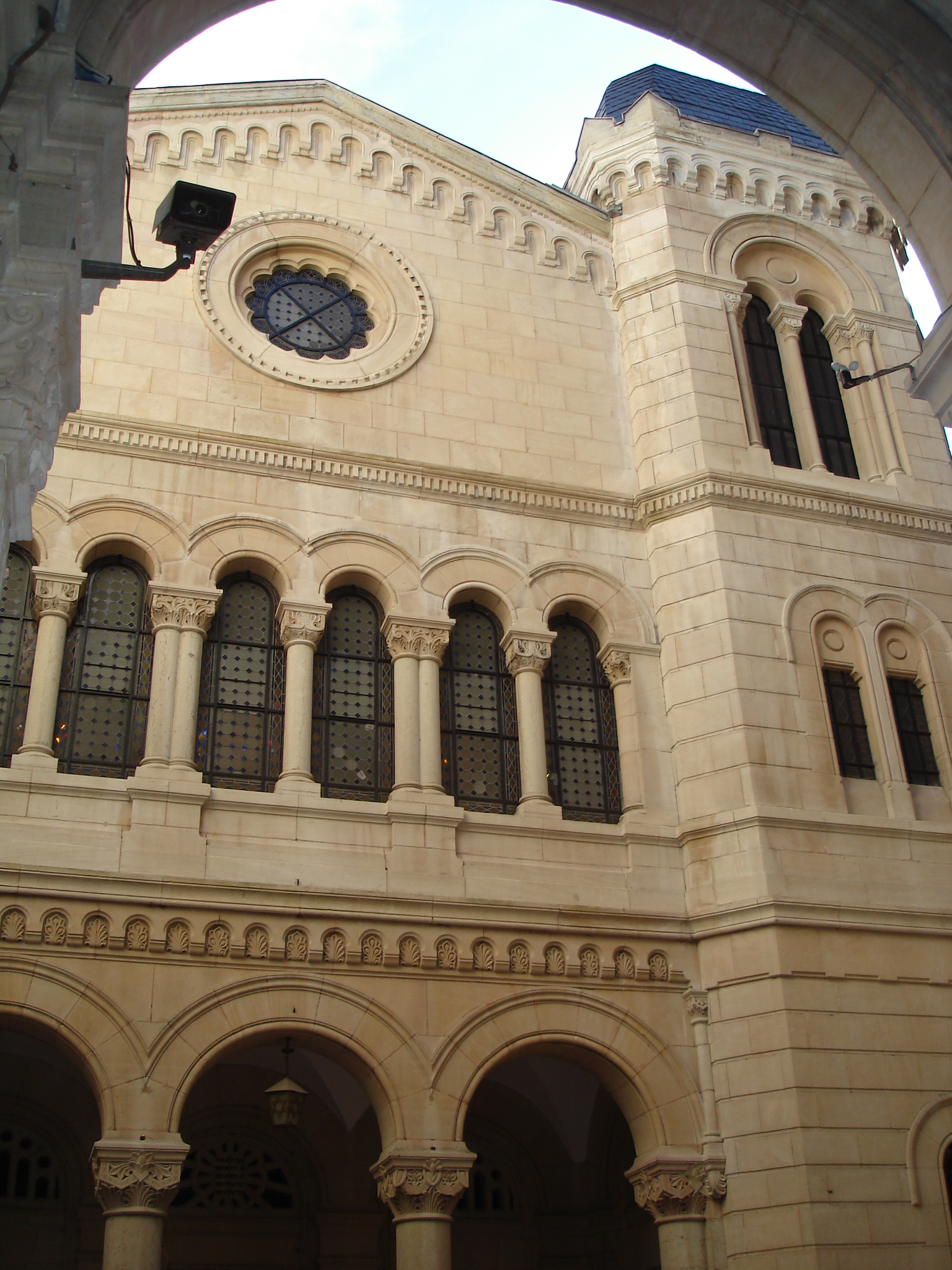 Great synagogue of lyon - front on the yard